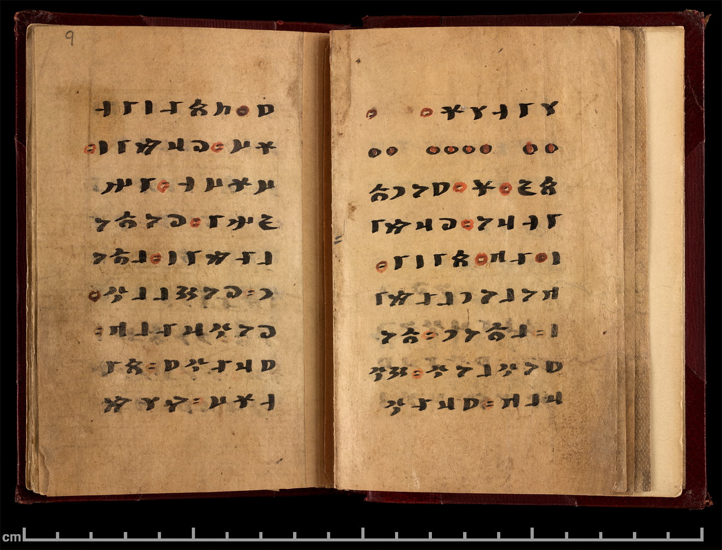 "Irk Bitig Fal Kitabı" page 9